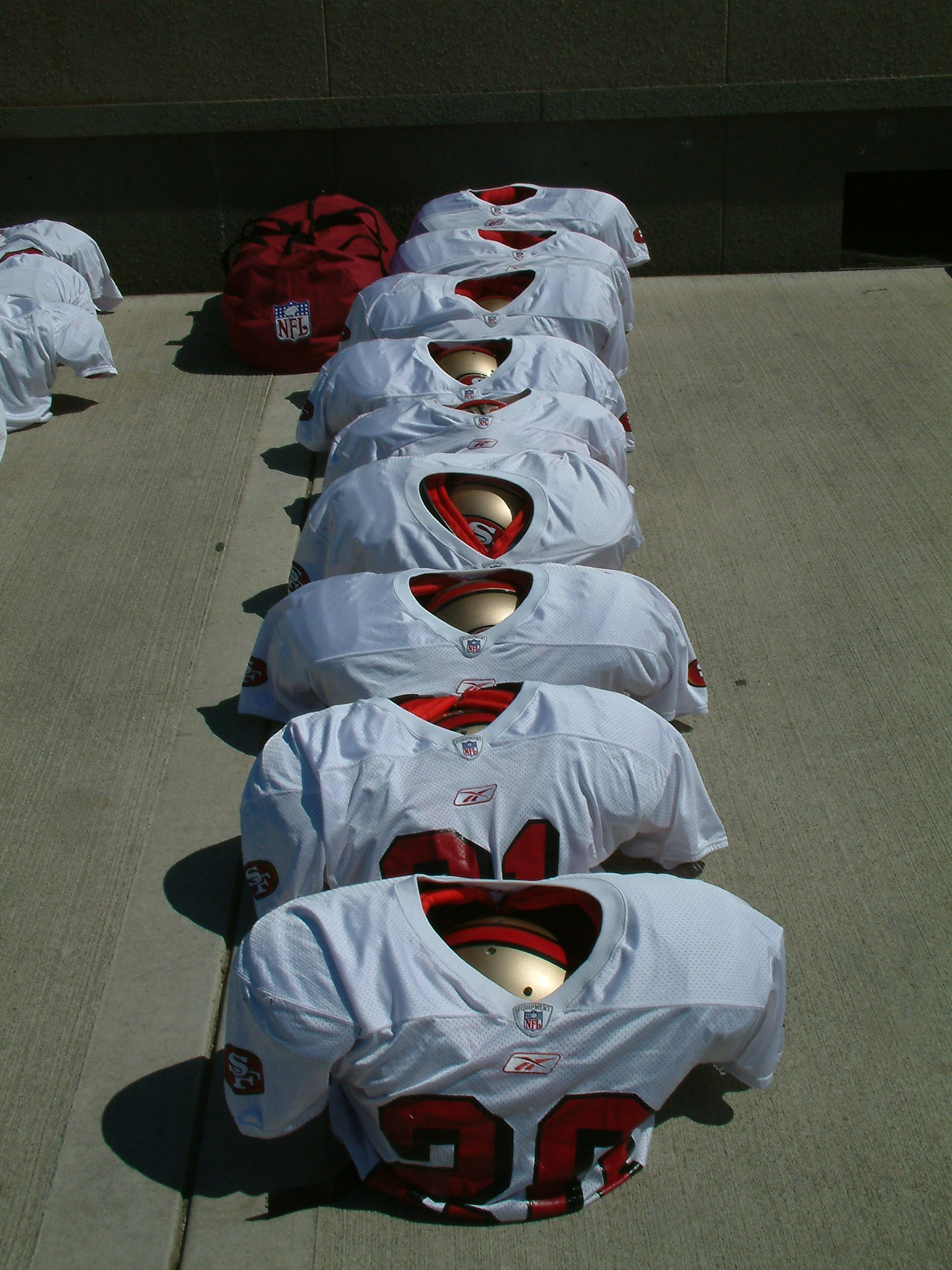 Football shoulder pads.